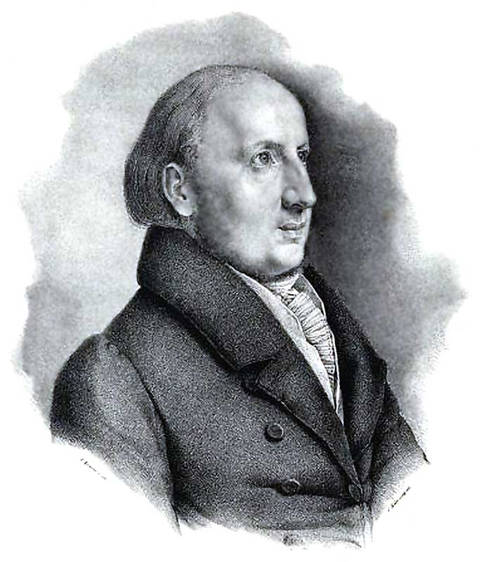 Johann Christian Hasse (1778-1830) German lawyer